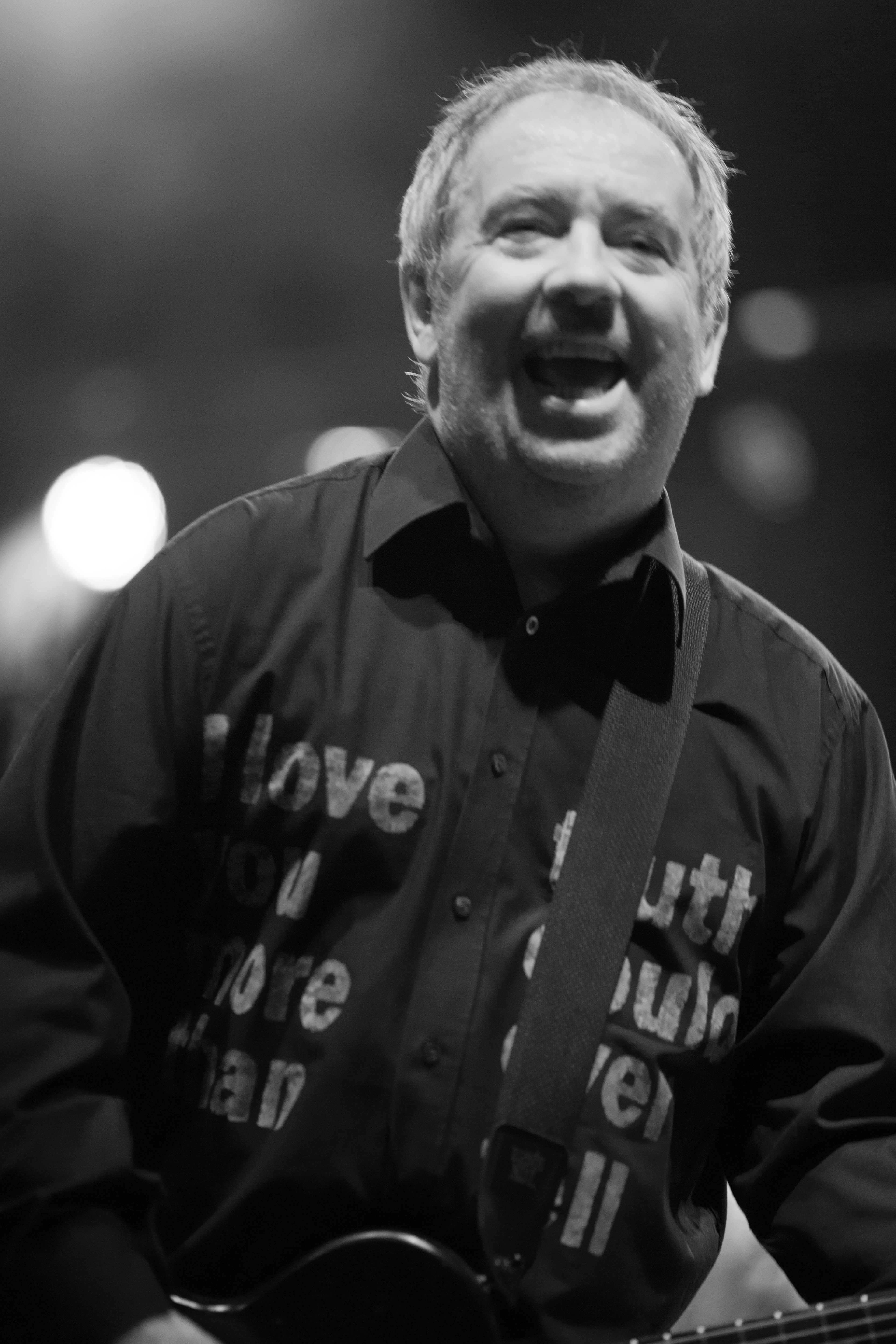 Pete Shelley performing with the Buzzcocks at the "Dig It Up" festival in Melbourne, Australia